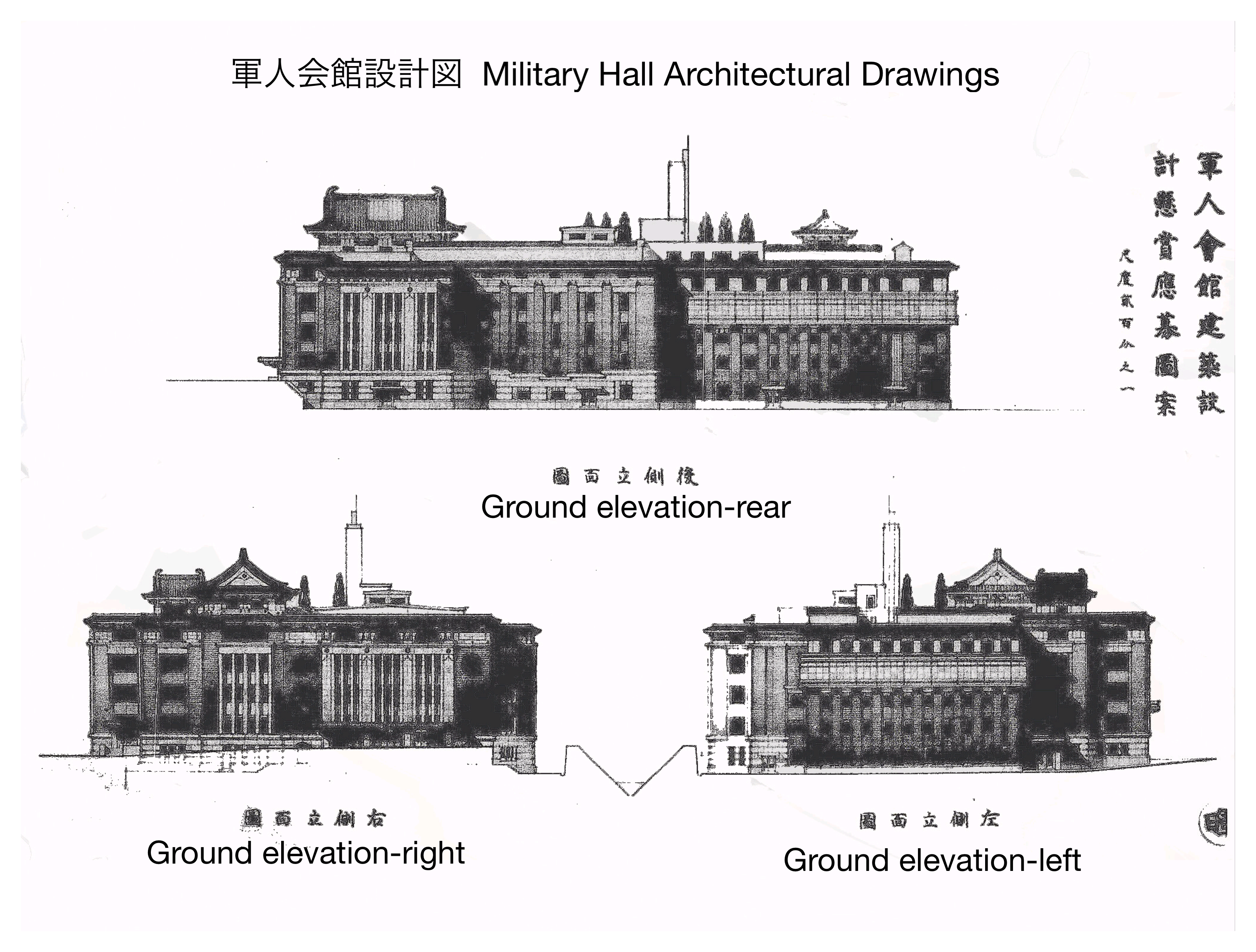 Rear, Left, and Right ground elevations of Military Hall. This is one of the most notable examples of Imperial Crown Style architecture.